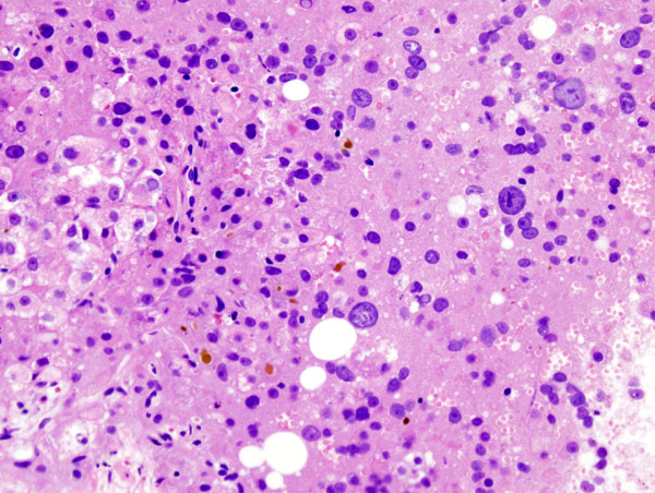 Histopatholgical image of hepatocellular carcinoma in a patient with liver cirrhosis by chronic hepatitis C infection (Case 01). Hematoxylin and eosin stain. This case is characterized by solid-sheet appearance with indistinct cell borders and poorly developed sinusoid structure. Each cell has eosinophilic cytoplasm, their nuclear morphology being greatly variable. Brownish droplets represent the ability of neoplastic hepatocytes to produce bile in excess.